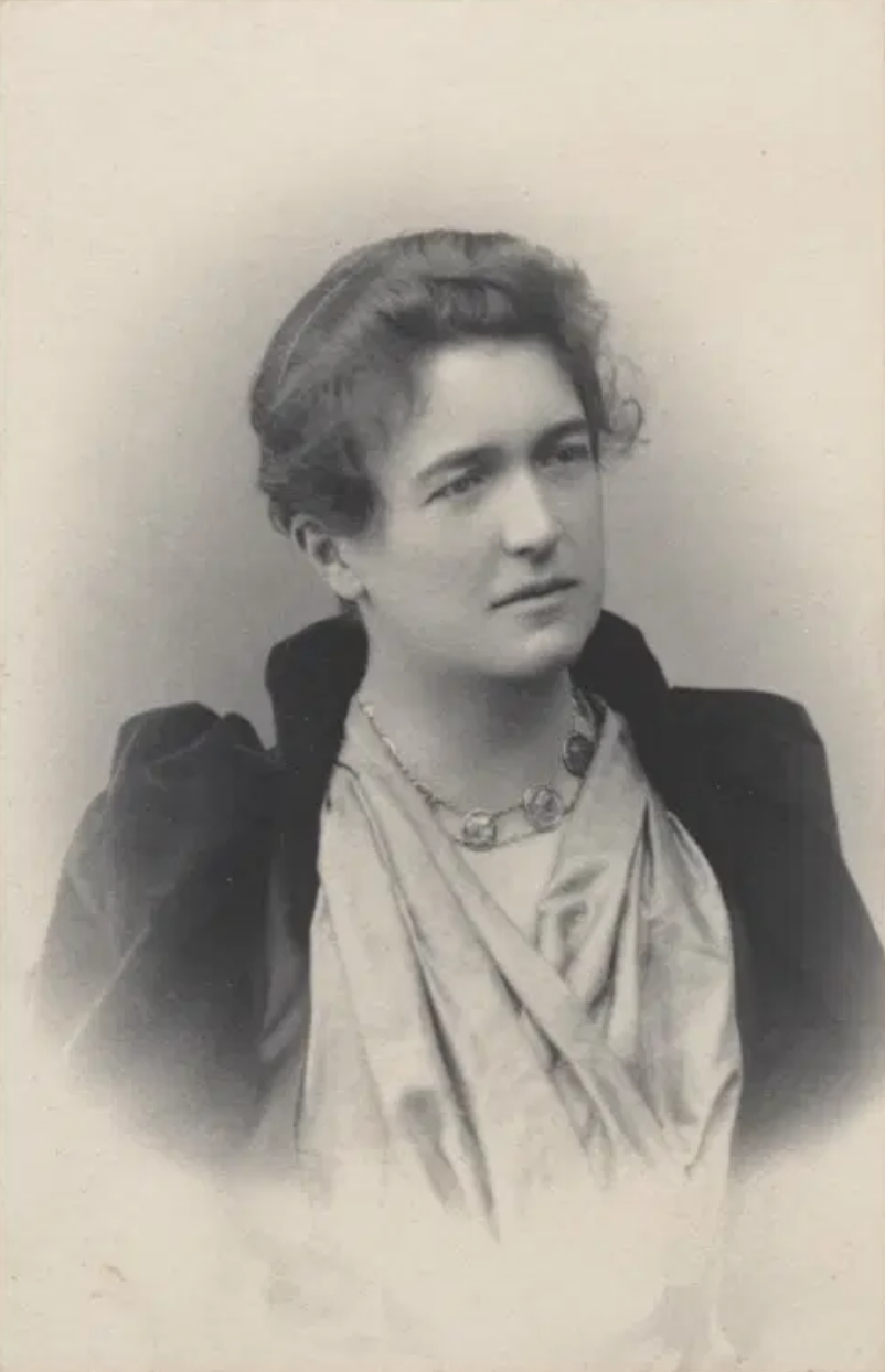 Photographic portrait of Ellen Wordsworth Darwin (1856-1903)